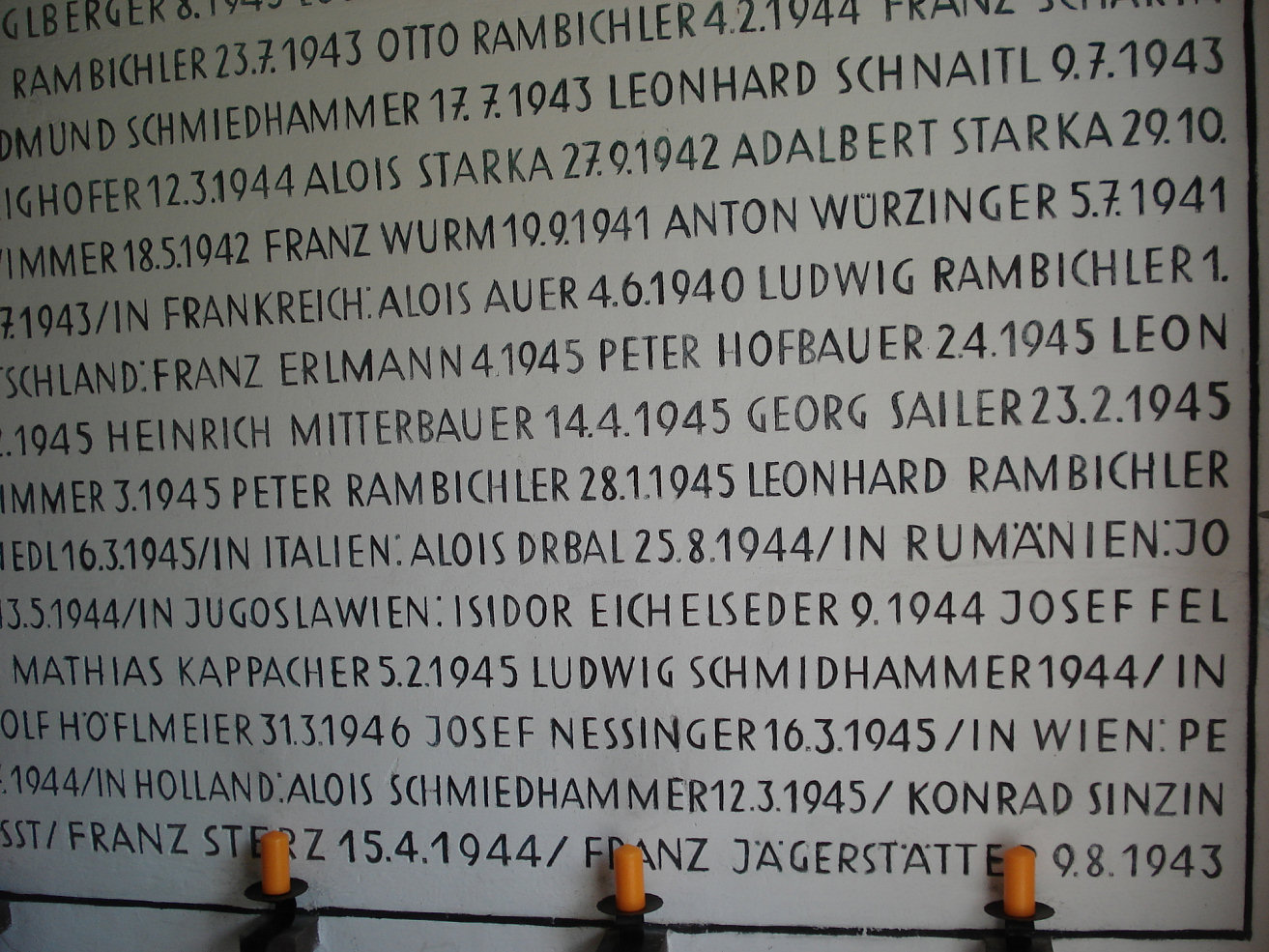 Sankt Radegund (Upper Austria), part of war memorial with the name of Franz Jägerstätter (at last)